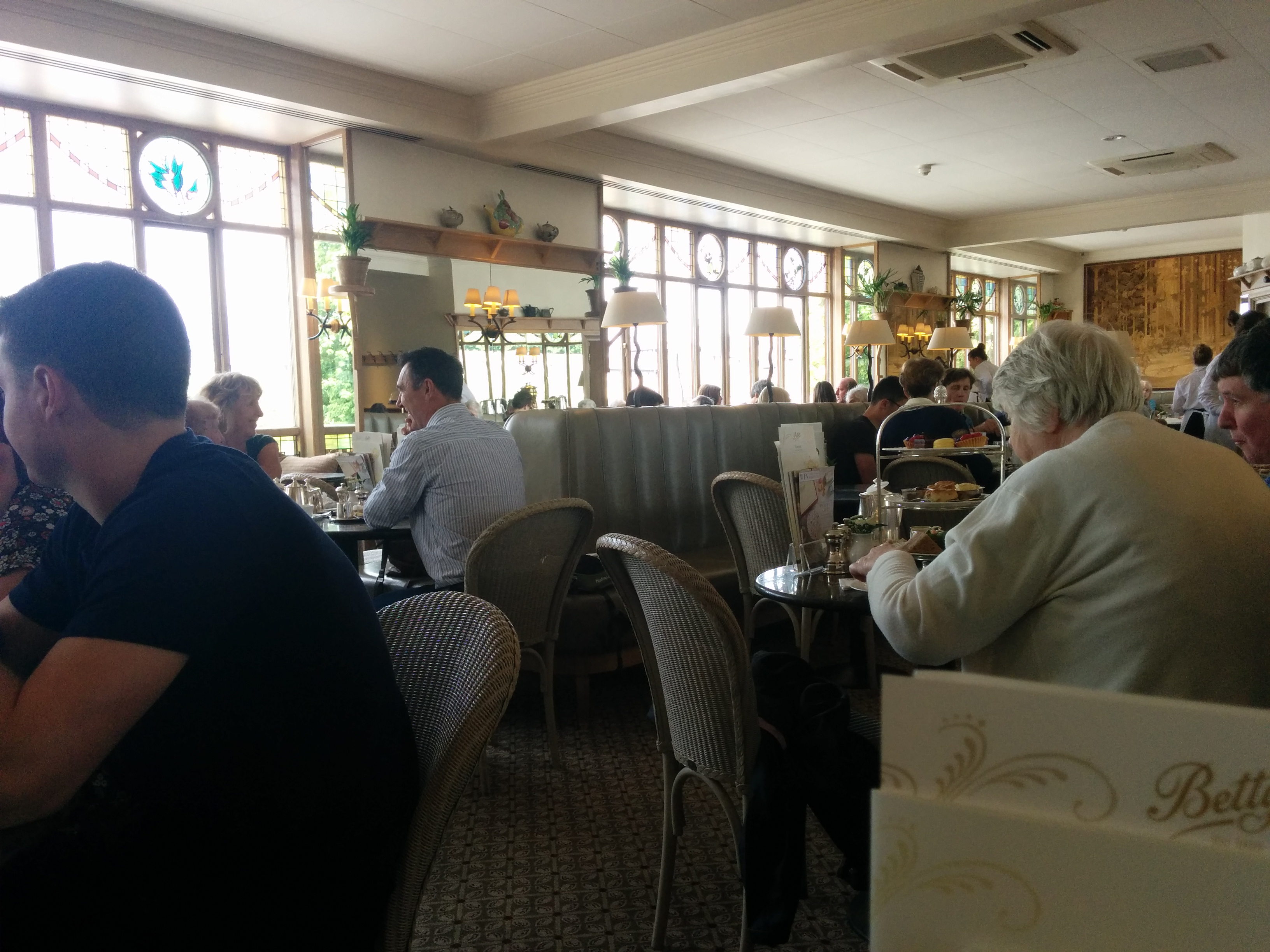 Bettys Café Tea Rooms (Ilkley)